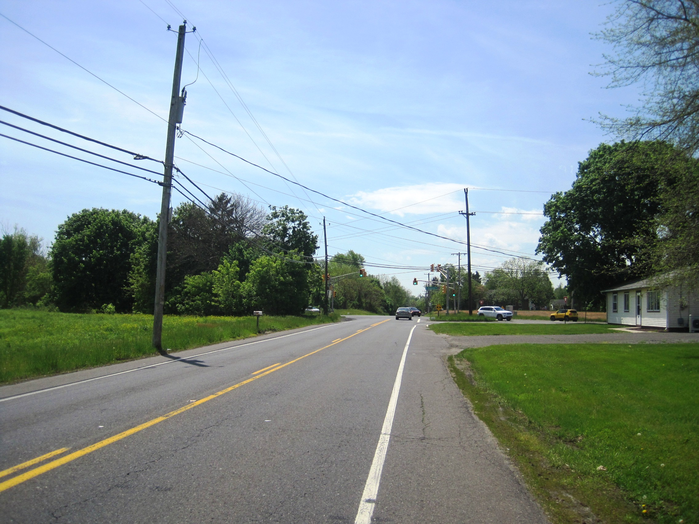 Photo showing Comical Corners, New Jersey, an unincorporated community within Pemberton Township. Photo was taken along southbound Arneys Mount Road (County Route 668) approaching Pemberton Road (CR 630).